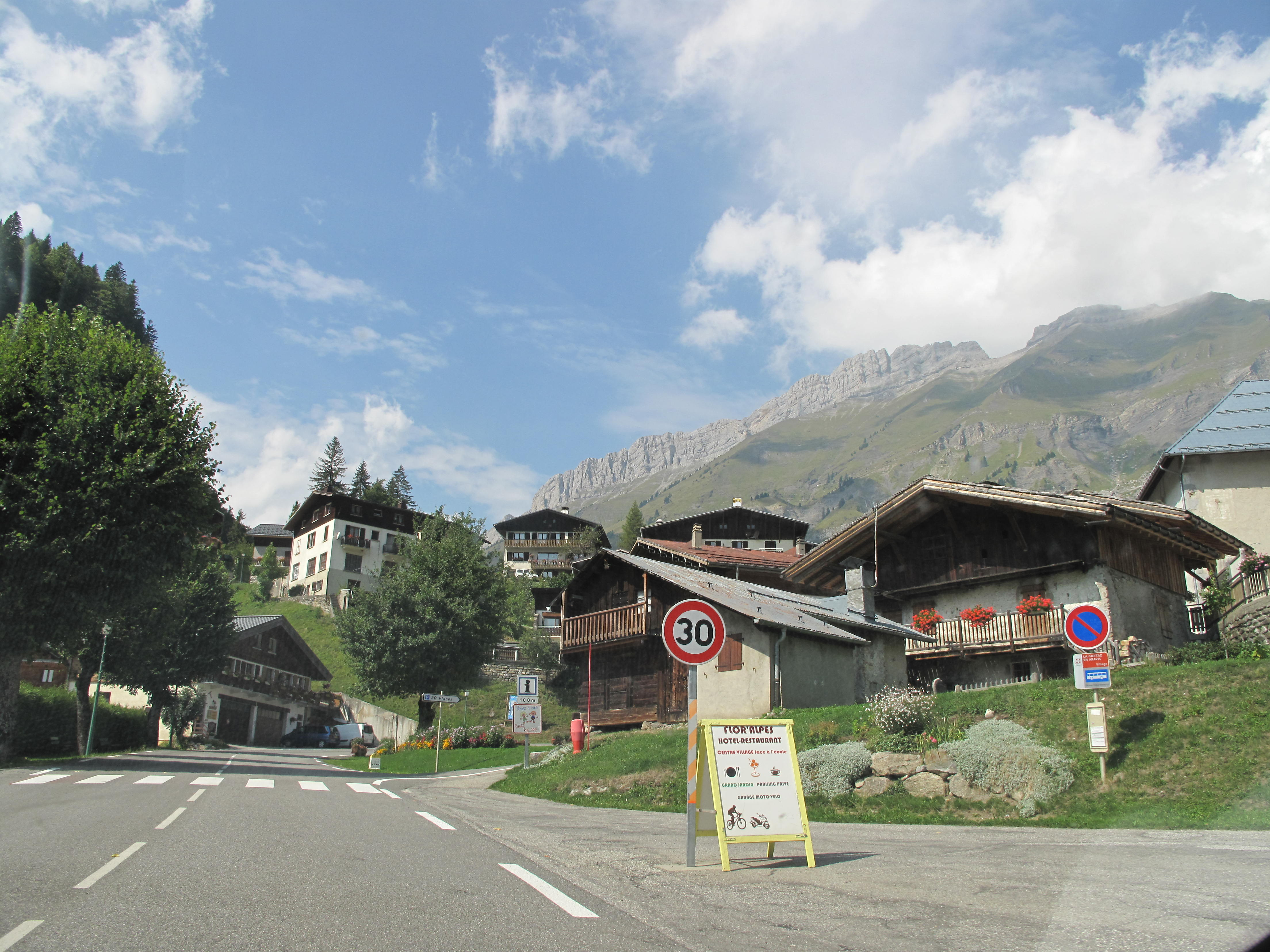 The slope of the Aravis pass on east side at la Giettaz (Savoie, France).